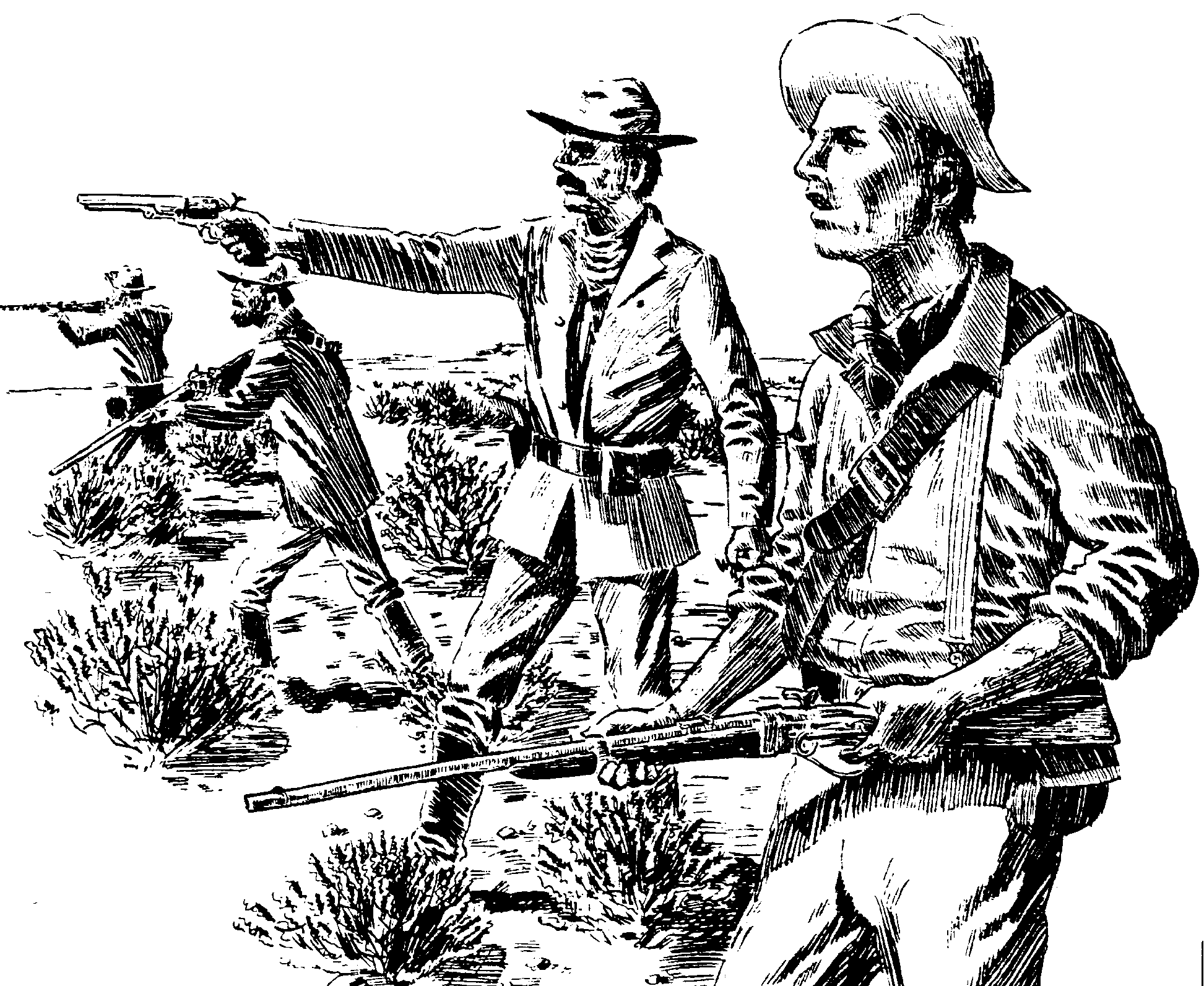 Arizona Rangers sketch, as they appeared in the 1862 Arizona Campaign.